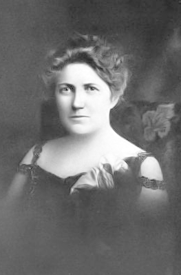 Cynthia May Westover Alden, most commonly known as Cynthia W. Alden. American journalist and founder of the International Sunshine Society.